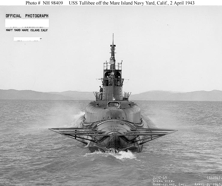 USS Tullibee (SS-284), photo taken from the Naval Historical Center.